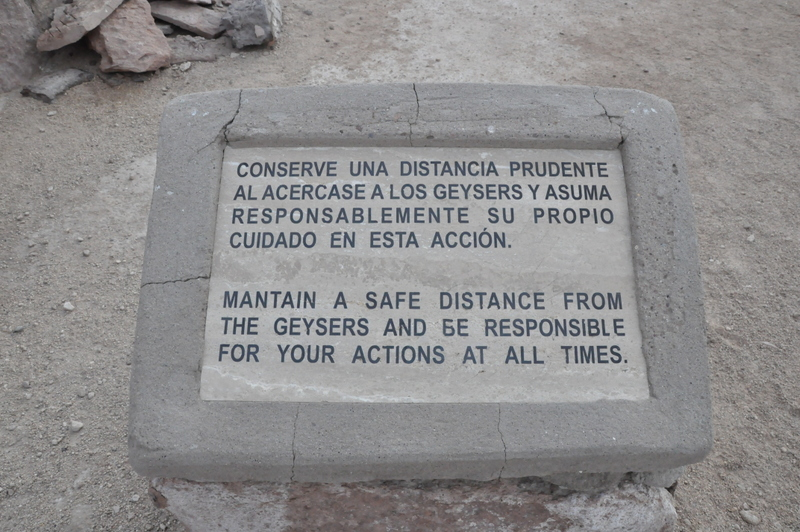 Safety in Tatio geyser field, Antofagasta Region, Chile